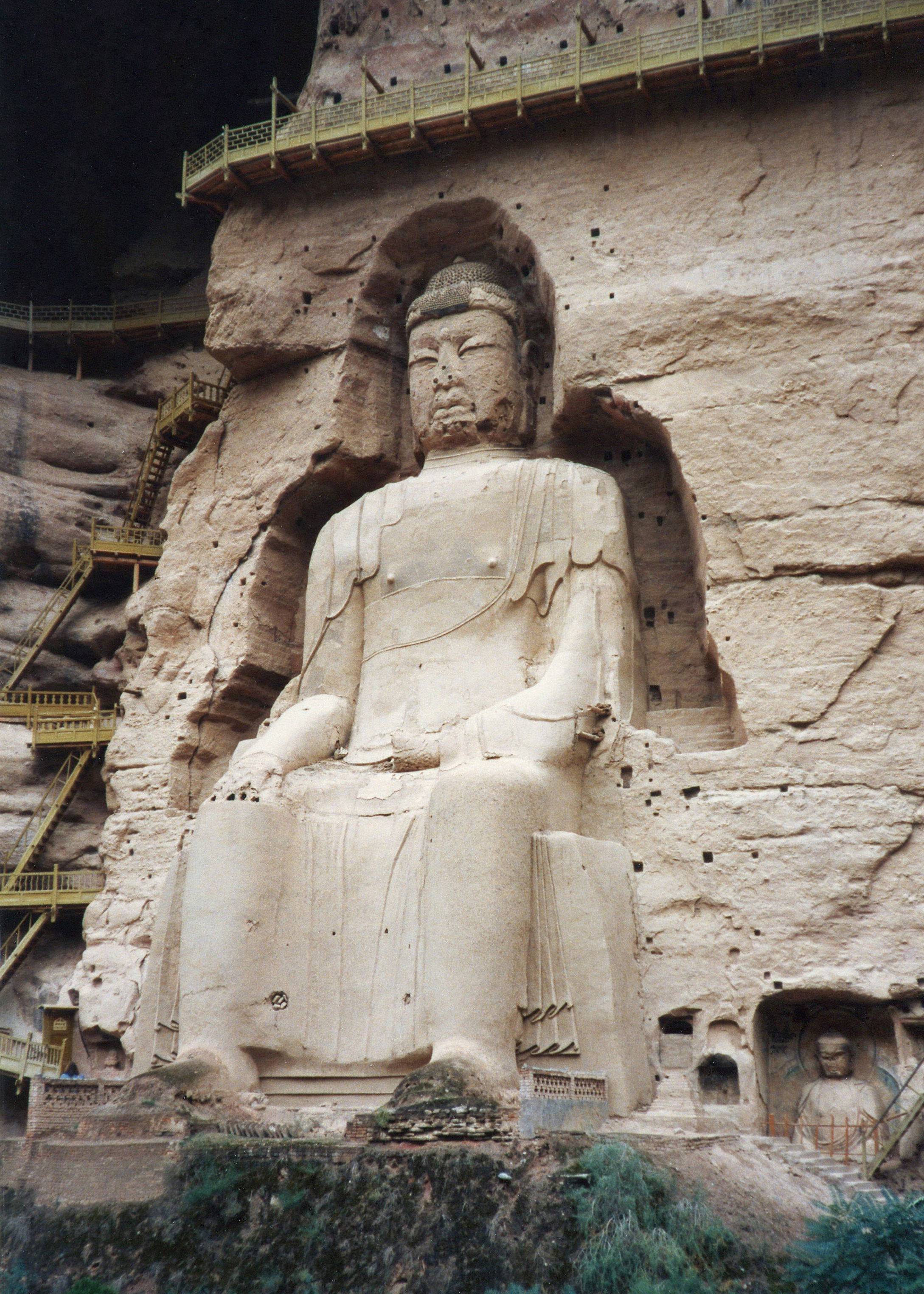 Statue of the Buddha Maitreya at Bingling Temple, Gansu, China